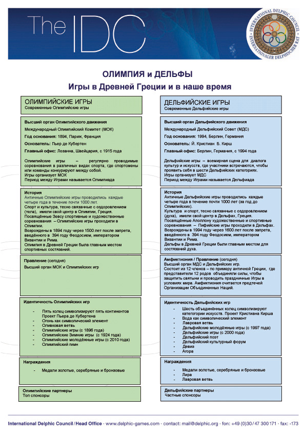 Olympic Games & Delphic Games – at a Glance